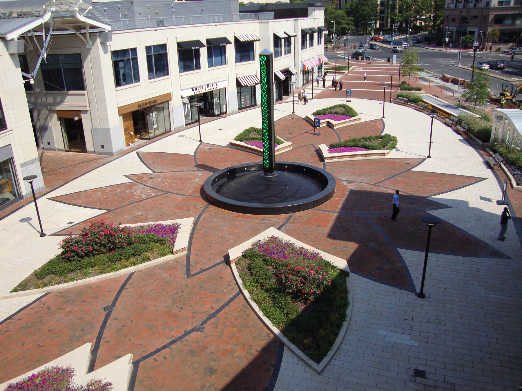 Friendship Plaza in front of Bloomingdale's, Wisconsin Place, Bethesda, MD/DC, designed by Athena Tacha, including its Light Obelisk Fountain (animated LEDs), 2001-09, in collaboration with Arrowstreet Inc., and CRJA & Art Display Co. (photo Ricahrd Spear)